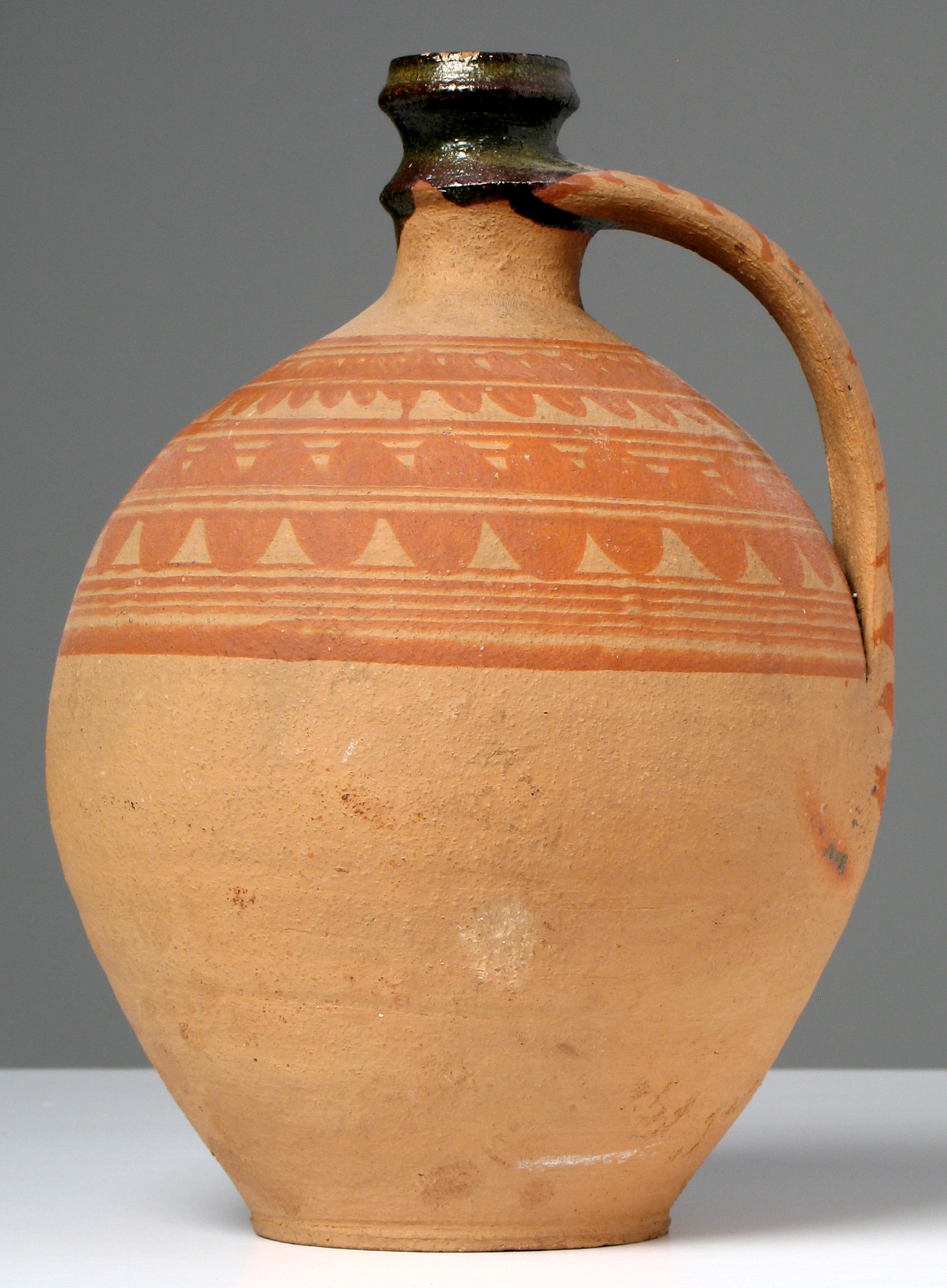 Object located in National Ethnographic Museum in Warsaw as a part of the European collection. Clay can. Slovakia.